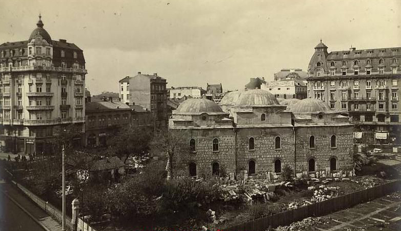 The National Archaeological Museum (formerly Bujuk-mosque) in Sofia.